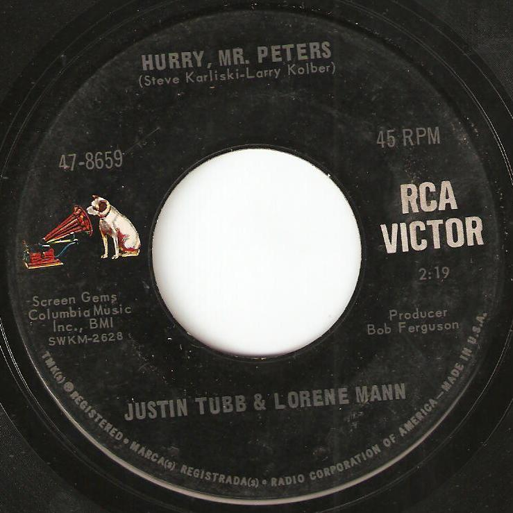 Hurry, Mr. Peters by Justin Tubb & Lorene Mann, RCA Victor 1965.